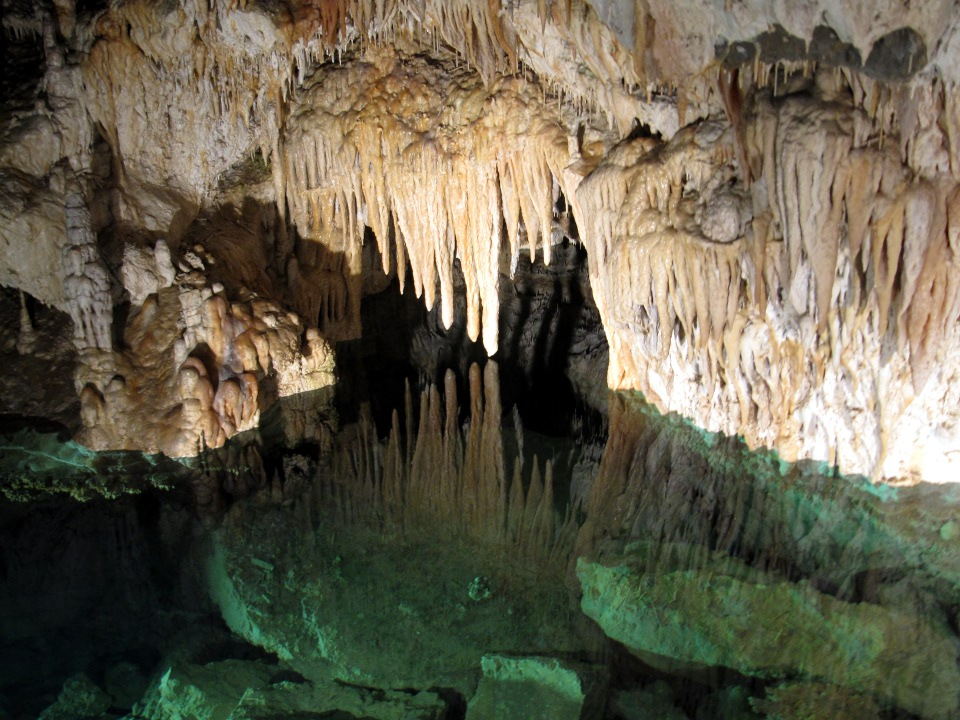 Demänová cave of freedom, "Emerald Lake"